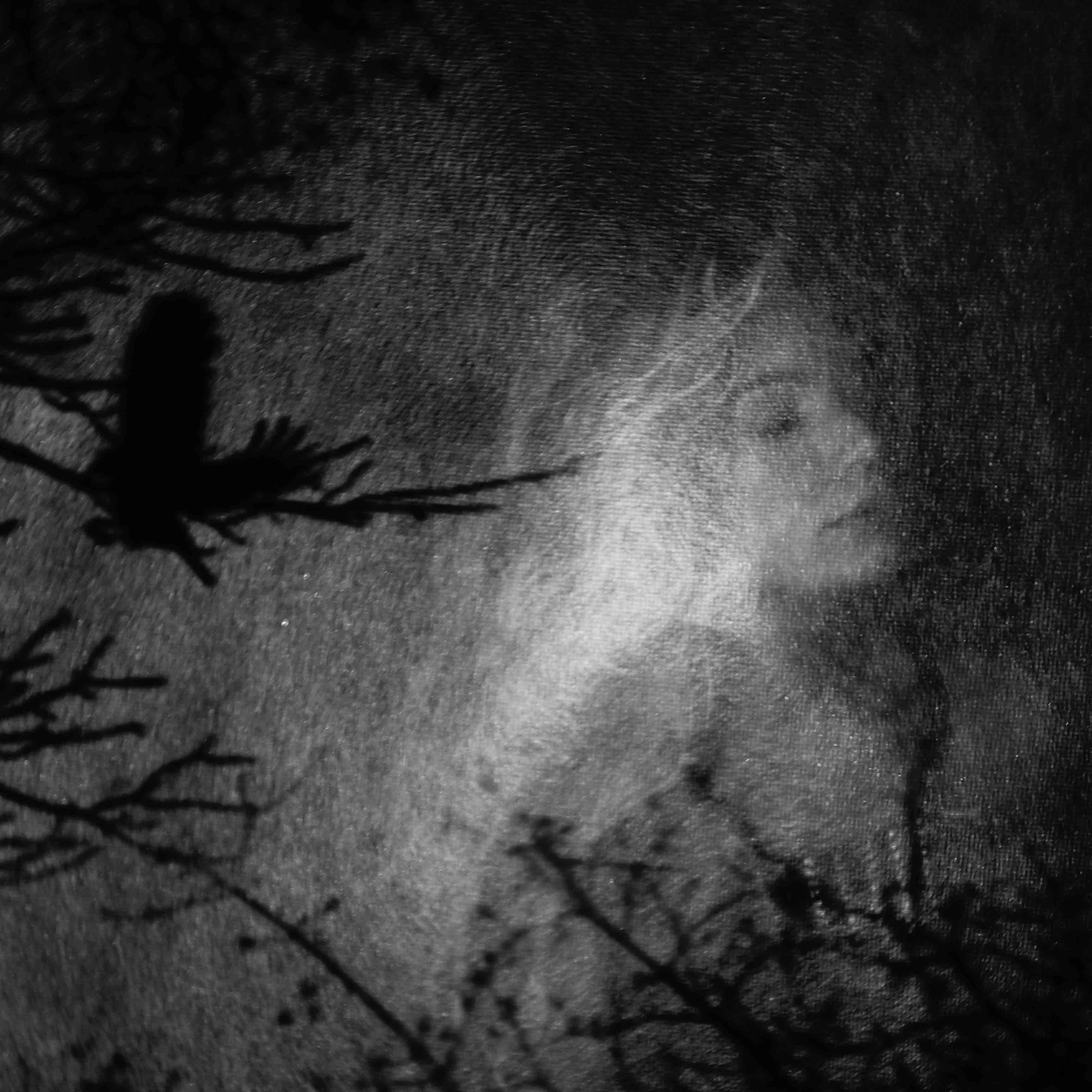 Варяч демидова